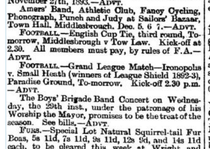 Advertisement for forthcoming association football match between Middlesbrough Ironopolis and Small Heath in the Football League Second Division to be played on 25 November 1893